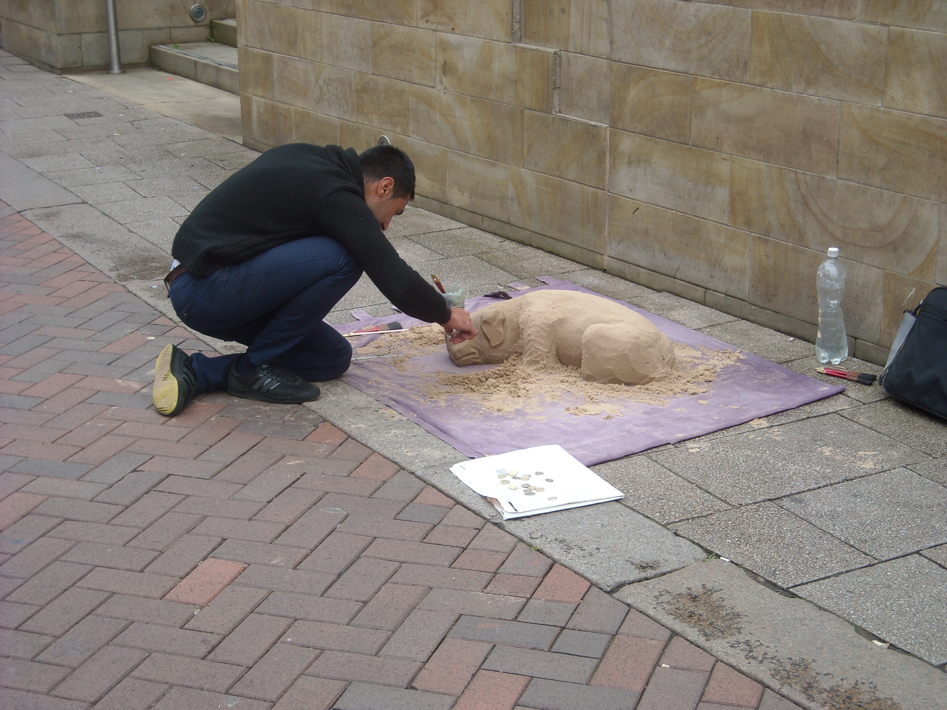 A sand sculptor creating a sculpture of a dog, as a busking act, in Bedford.